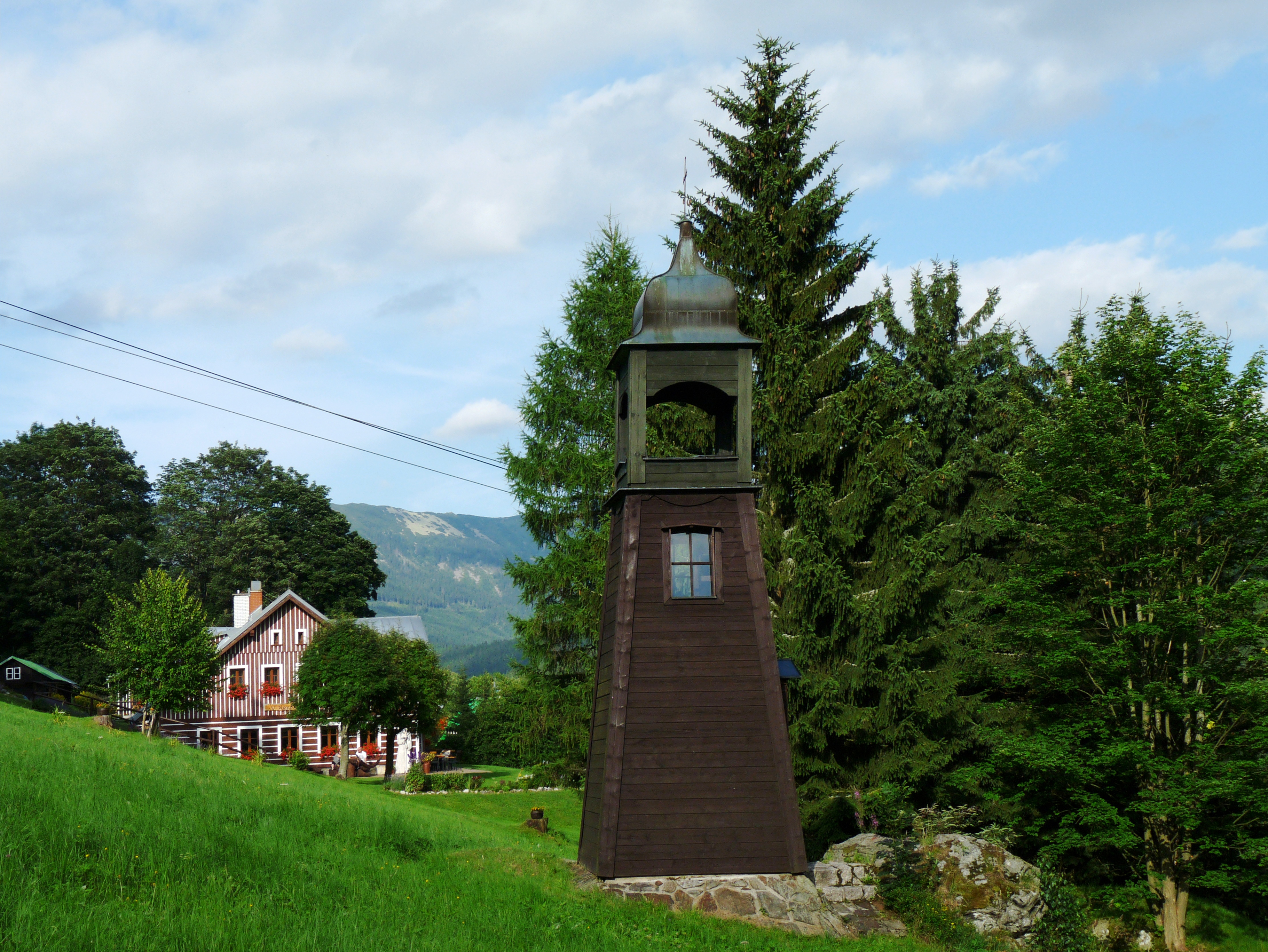 Labská (Špindlerův Mlýn) in the Giant Mountains, Czech Republic, a wooden bell tower.